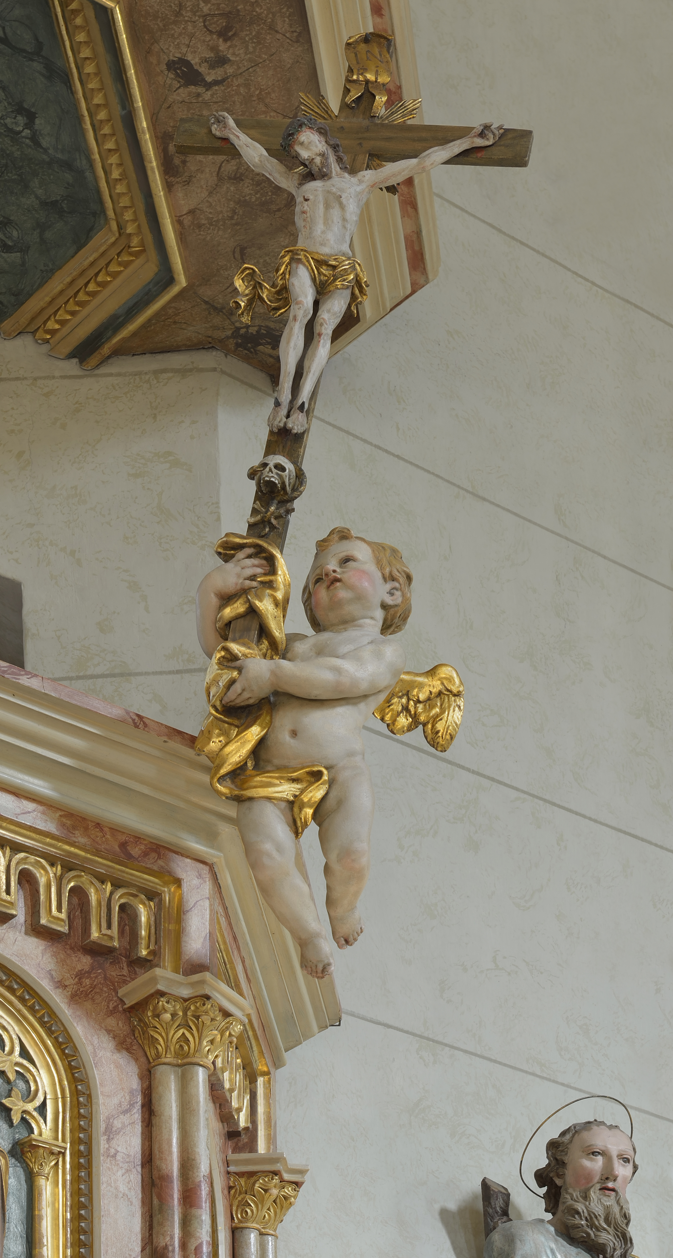 Putto by Domëne Moling in the parish church in La Val